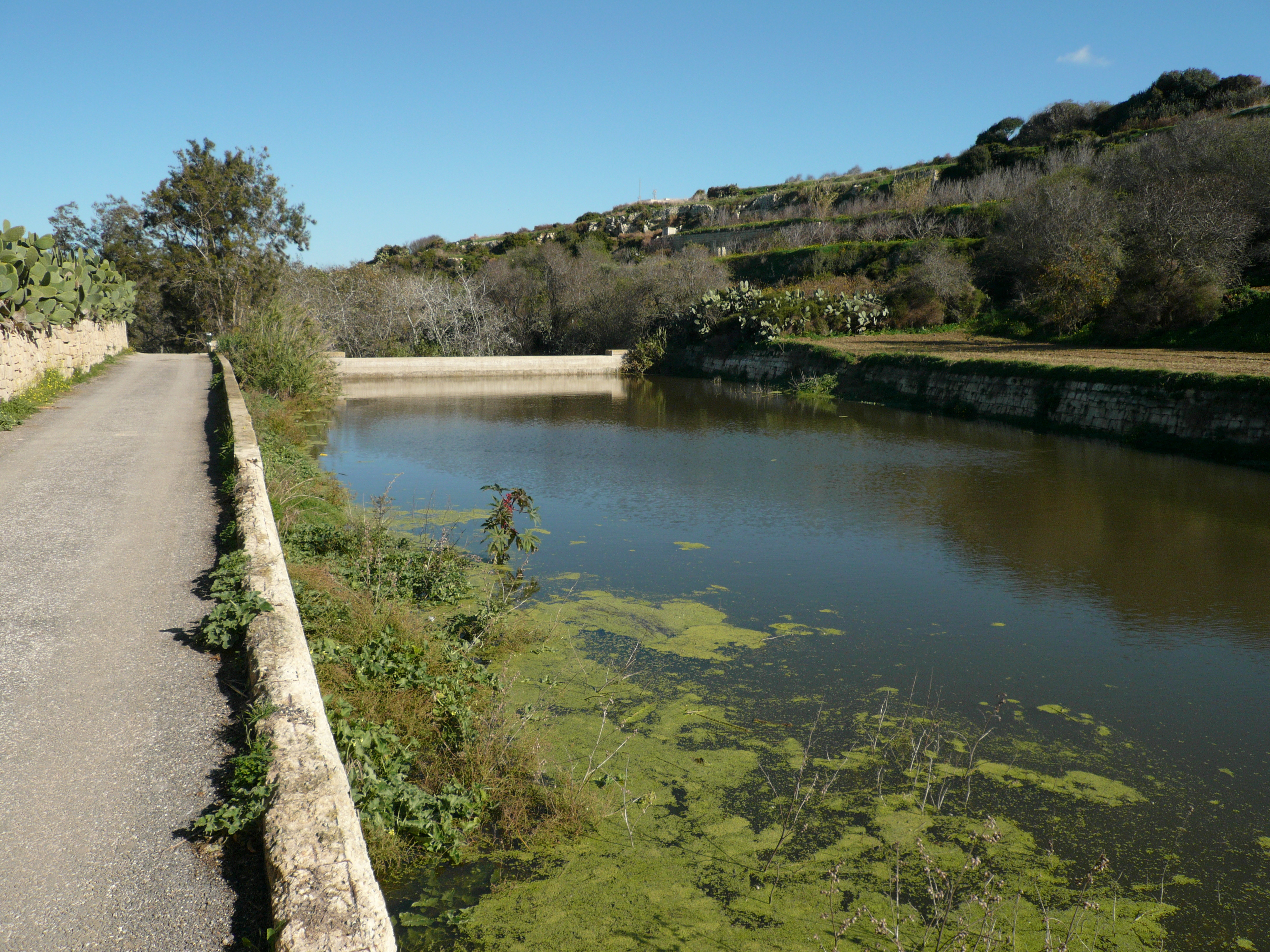 Chadwick lakes at Malta